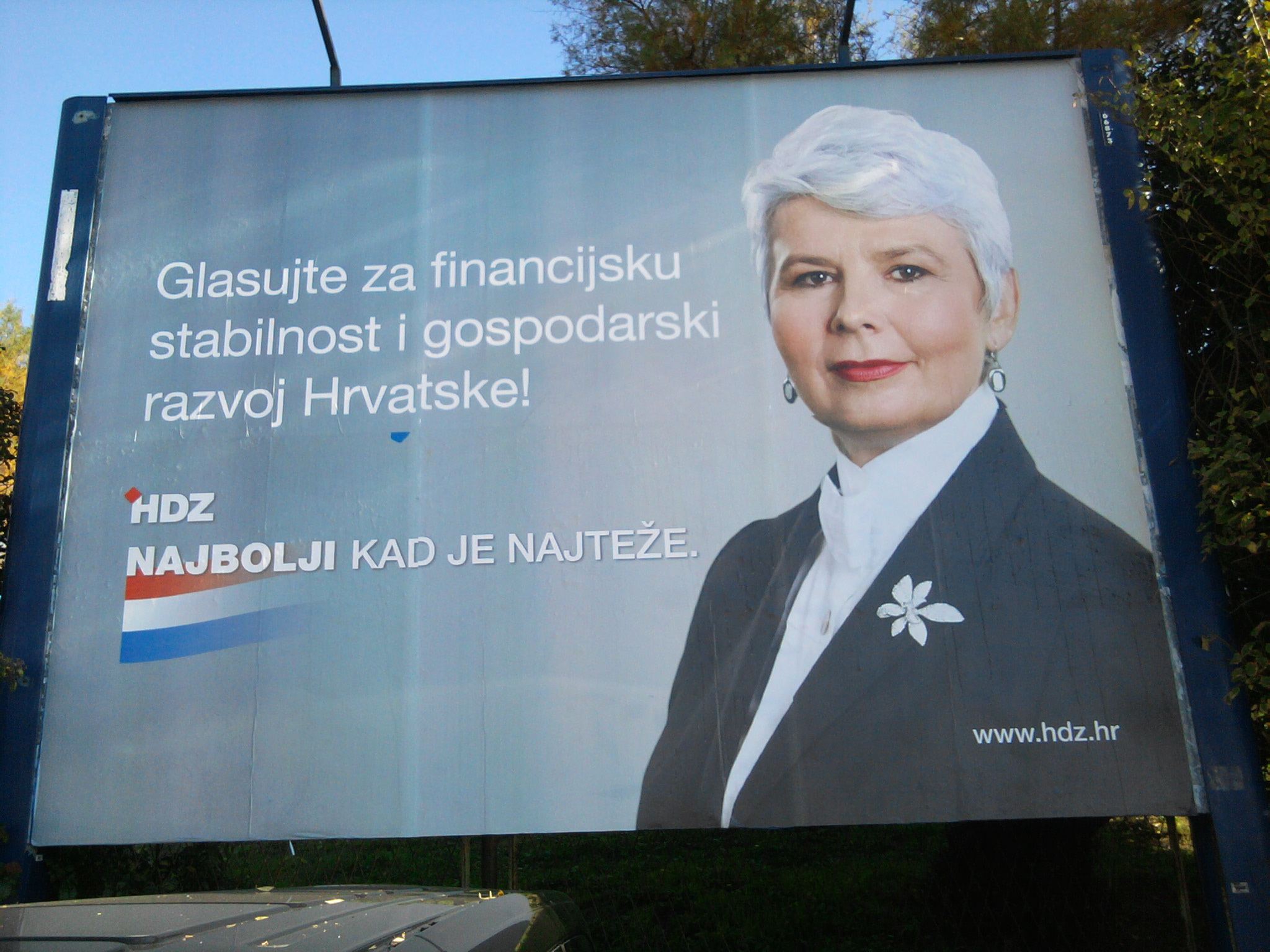 Campaign poster used in the 2011 Croatian general election by the Croatian Democratic Union featuring Jadranka Kosor.